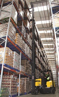 Narrow Aisle truck